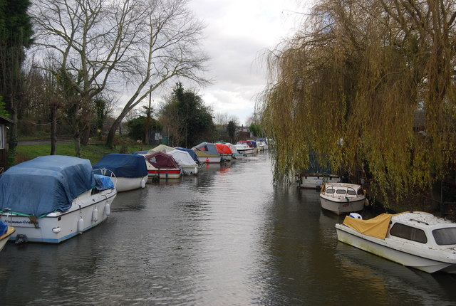 Boats moored at Grove Ferry on the Great Stour